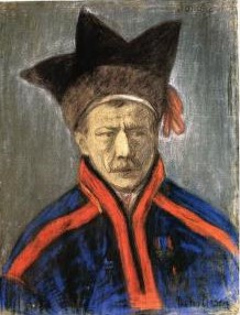 Klemet Somby (1868-1942) of Karasjok painted by Astri Aasen (1875-1935) during the first Sami congress in Trondheim 1917